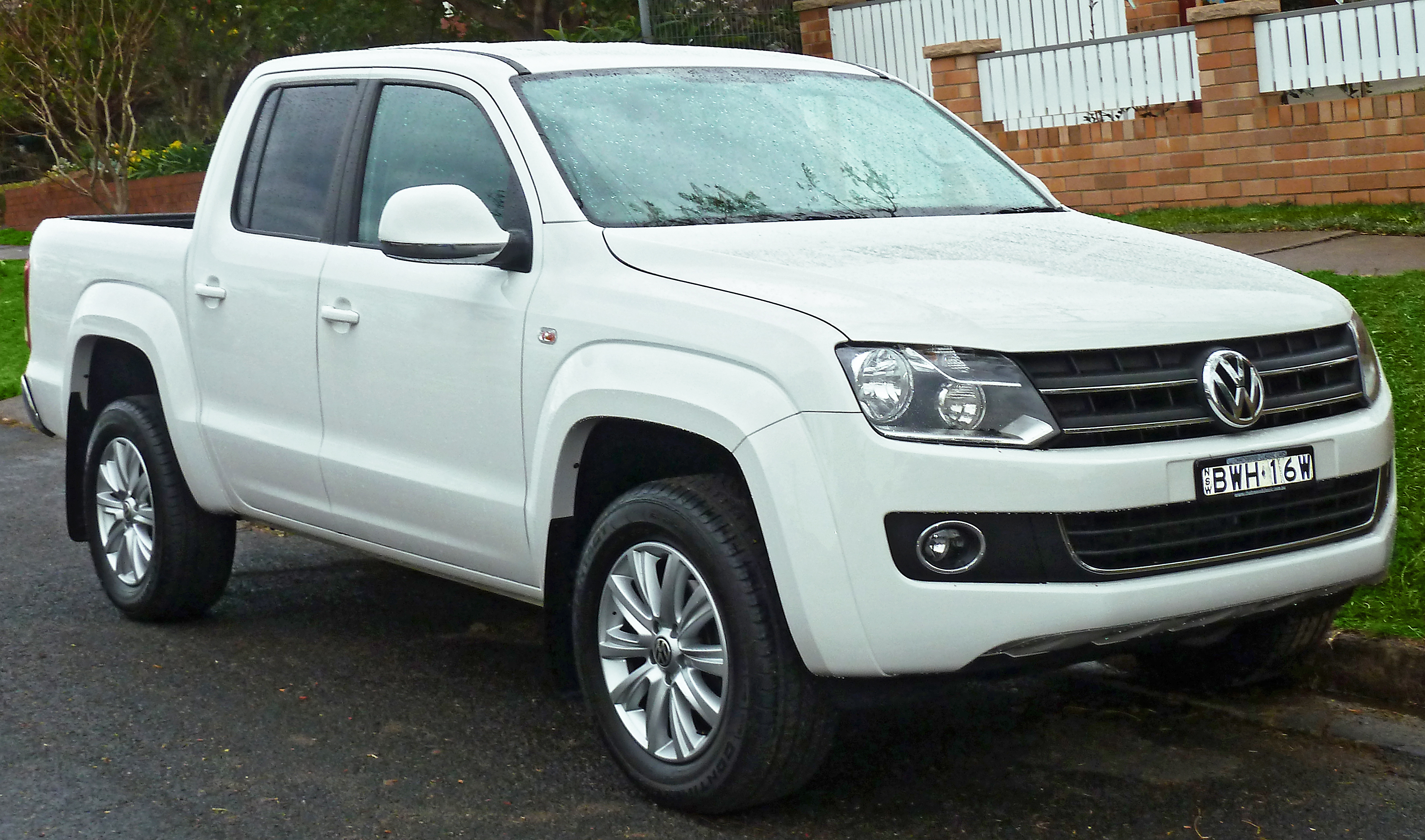 2011 Volkswagen Amarok (2H) TDI400 Highline 4-door utility. Photographed in Roseville, New South Wales, Australia.